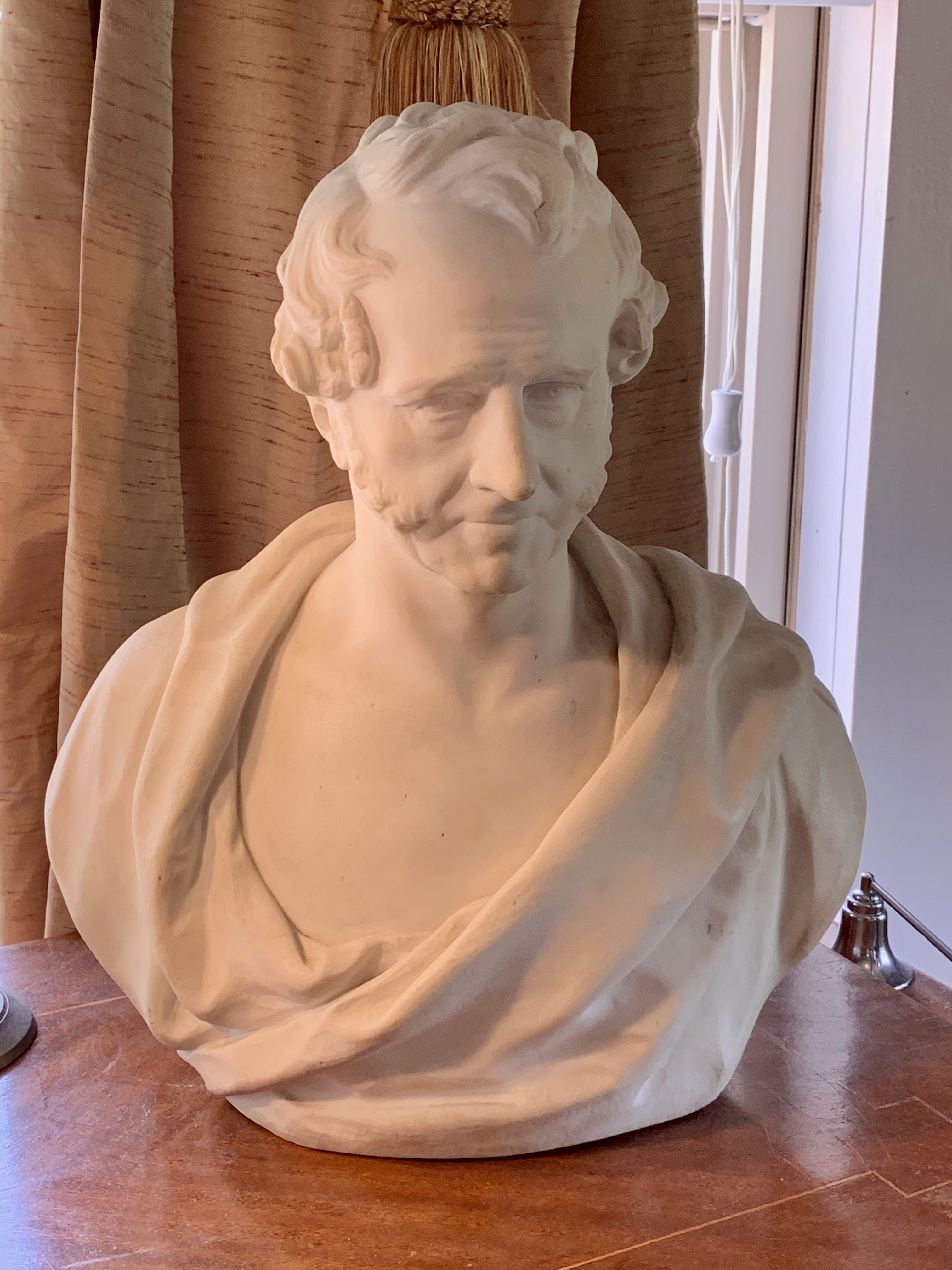 A marble bust of Benjamin Bond Cabbell by Morton Edwards, 1869.